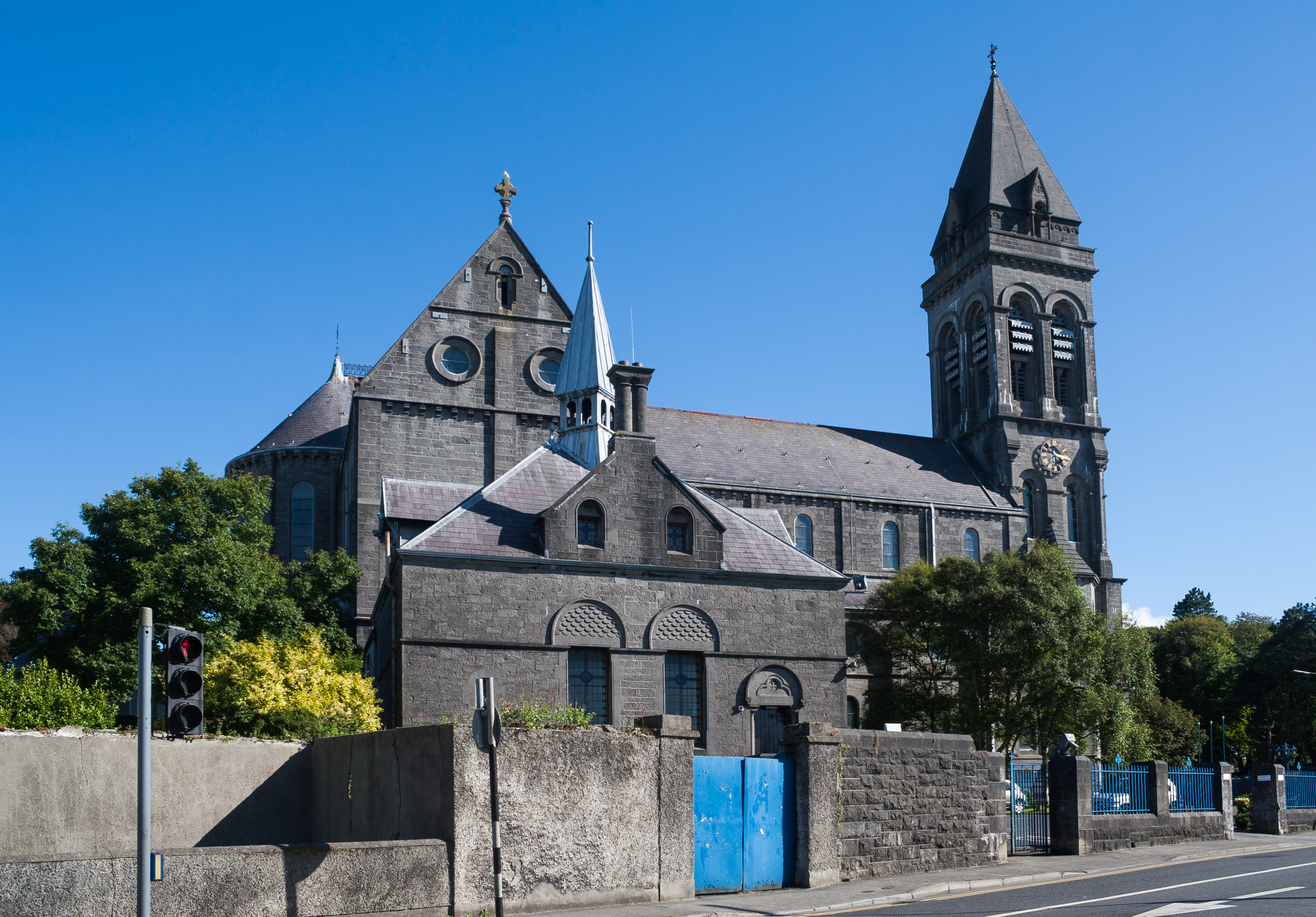 West view of the Sligo Cathedral of the Immaculate Conception.